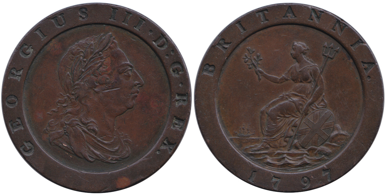 Coin 2 pence, Great Britain, 1797, George III. Copper, diameter 40.9 mm, thickness 5.1 mm, weight 56.47 g. Engraver Konrad Heinrich Kühler, circulation 722,000 copies.